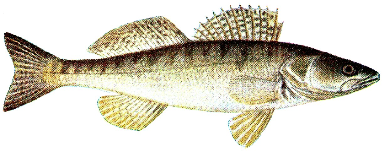 Zander (Sander lucioperca) from Iduns kokbok, author died 1933, scanned by Projekt Runeberg.